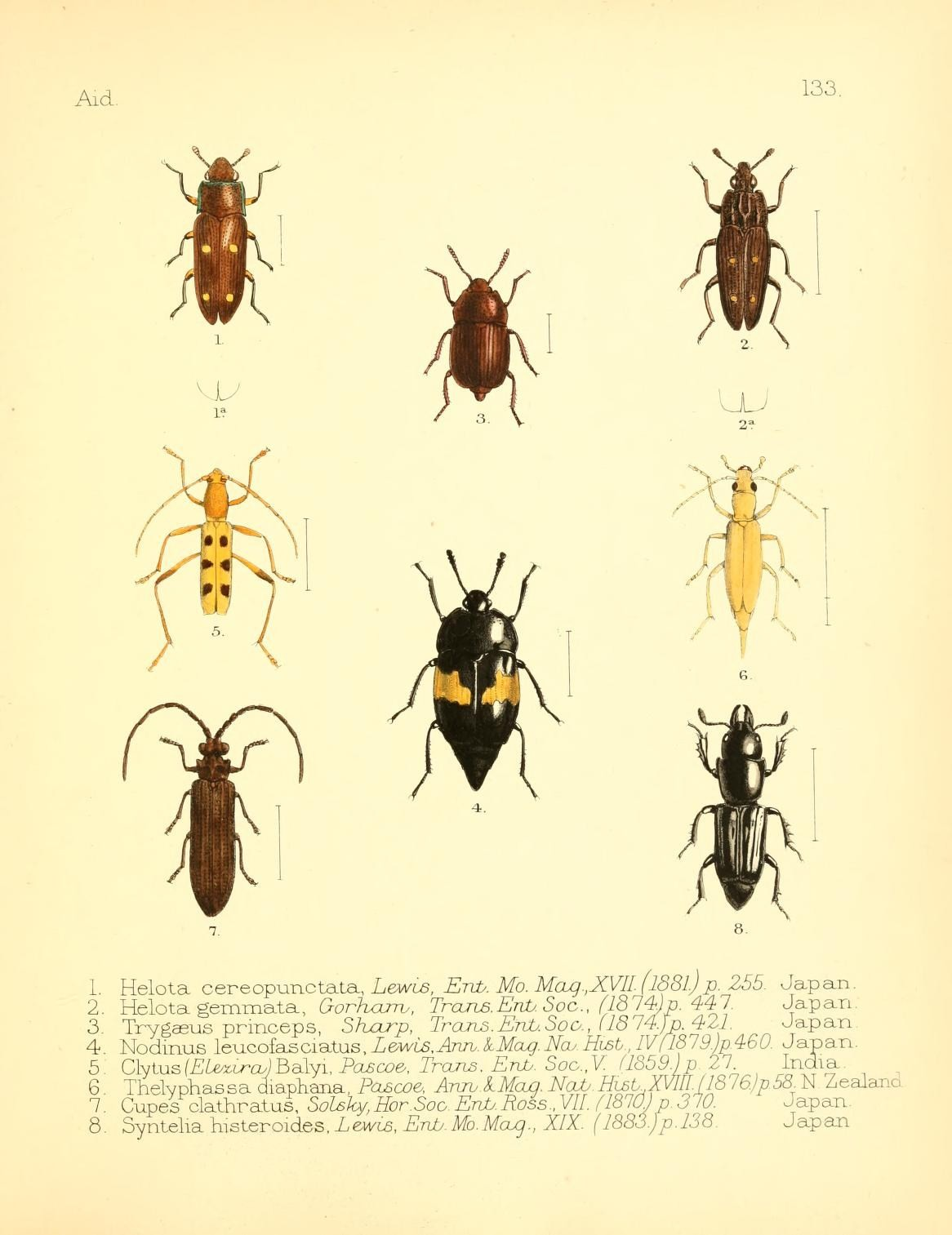 Aid. 133. 1^ • t '••«' w 1. Helota cereopunctata, Lewce, Enb. Mo. McLq.,XVIL(l881.) p. Z55- Japan. 2. Helota gemmata, Gorharru, Trojts.ETvb.Soc, .I814-)p. 441. Japan. 3. Trygaeus princeps, Sharp, Trazis.Ervb.Soo., (1814.Jp. 421. Japan 4 Nodinus leucofasciatus. Z&w;:^.^?^. kMcuj. Ncu Hist., IVfI879.)p.460. Japan. 5. Clytus Balyi,Pasco&, Trcuzs. Ertb. Soc.y. fI859.p21. India. ^ 6 Thelyphassa diaphana, Pascoe. Arav.lMcug. Noub.Hu&t.XVlllI lQT6.jp 58^ N Zealano. 7 : Cupes clathratus, SoWh/, Hor.Soo. EnP. Ross., VU. f 1810) p. 310. Japan. 8. Syntelia histeroides \Q.\i\zX.&To\^QZ,LewLB,EvJu.Mo.Mcu^.,XlX. .1883.)p.l38. Japan